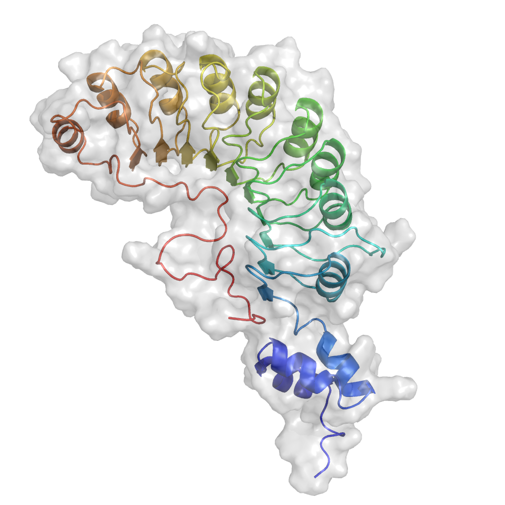 Structure of the SKP2 protein. Based on PyMOL rendering of PDB 2ast.